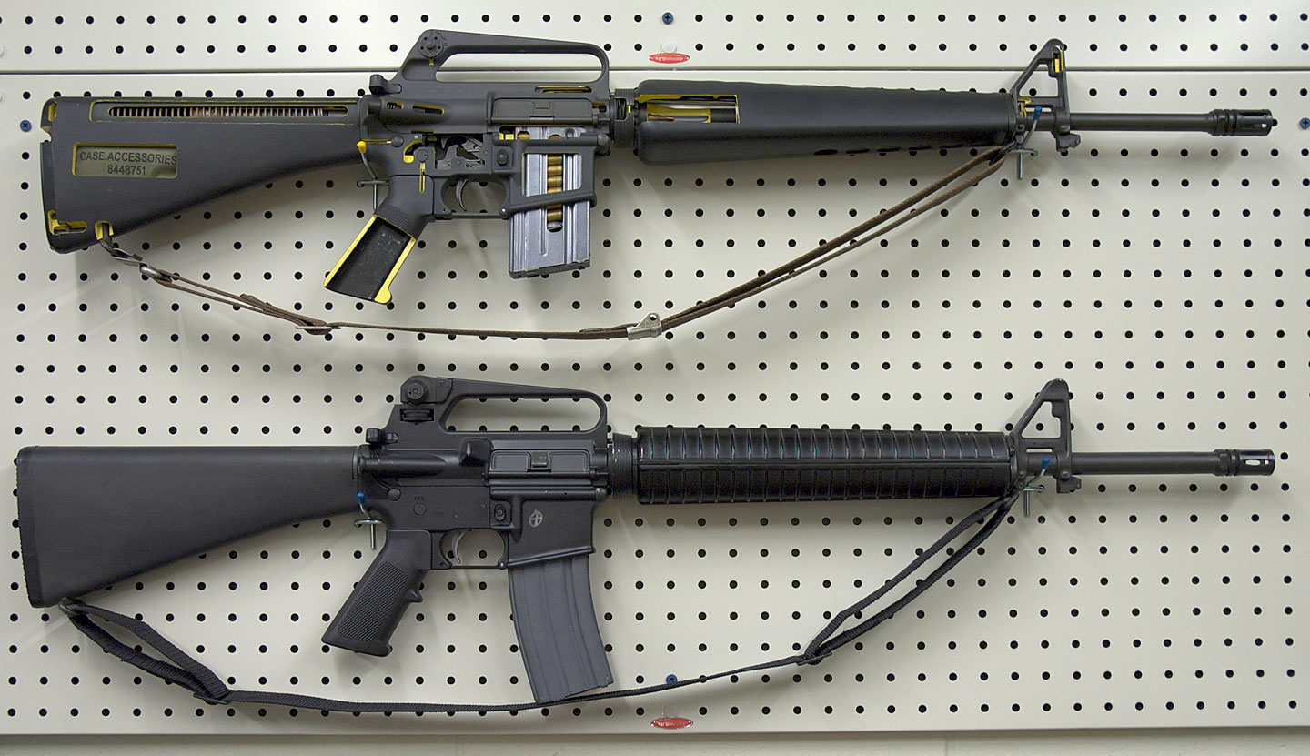 M16 variants. Cut-away M16A1 (semi-auto replica lower receiver) with 20-round magazine and standard M16A2 (semi-auto lower receiver) with 30-round magazine. These rifles feature a "straight-line" recoil configuration. This layout places both the center of gravity and the position of the shoulder stock nearly in line with the longitudinal axis of the barrel bore, a feature increasing controllability during burst or automatic fire.